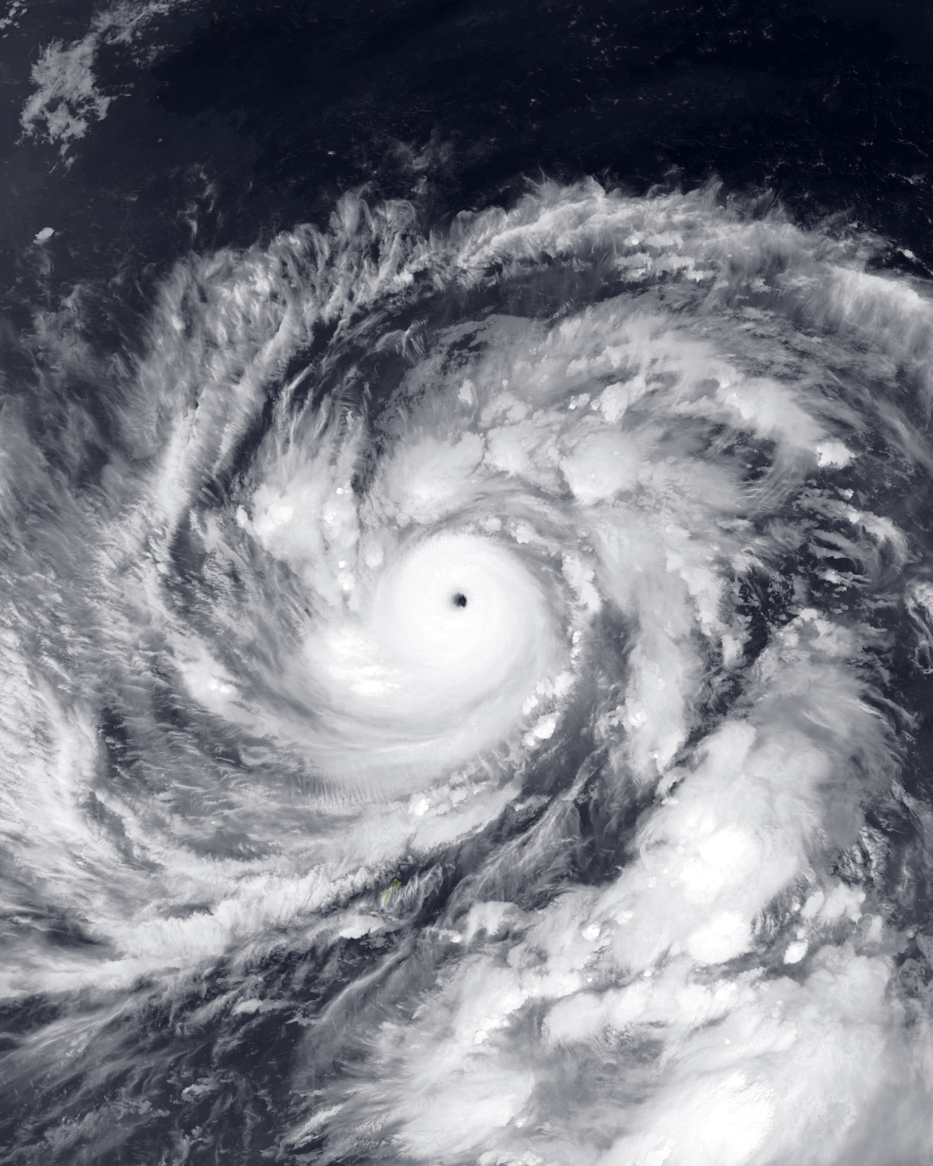 Typhoon Jebi on August 30, 2018